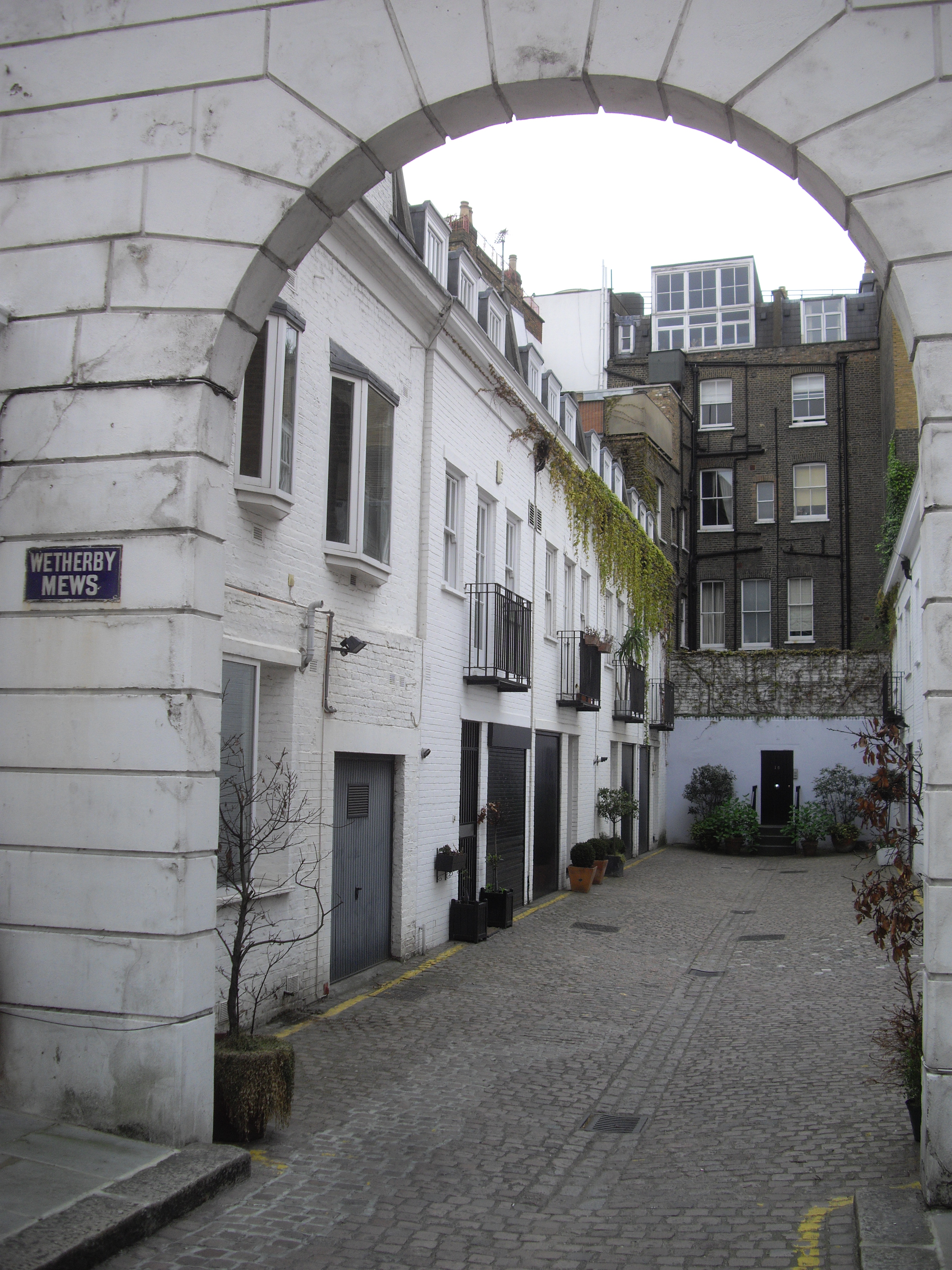 Wetherby Mews, Earls Court